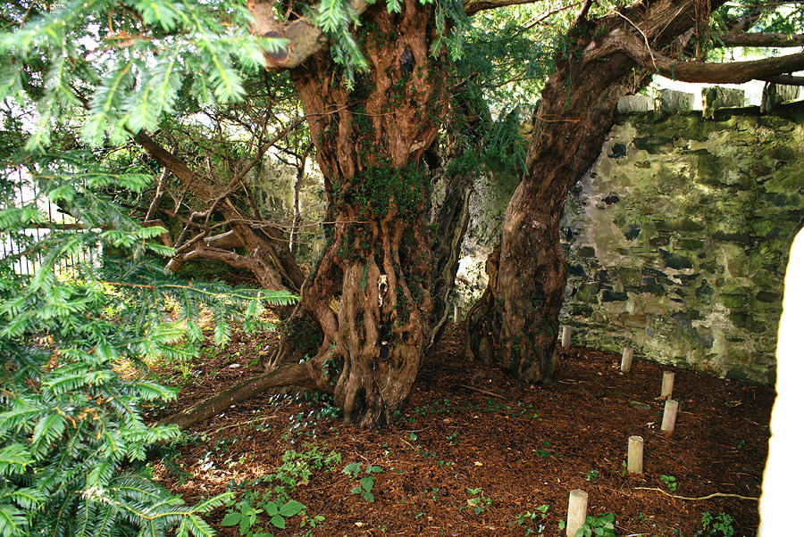 Fortingall Yew (Taxus baccata) the oldest creature in Europe (2-5000 years old). The original size of the trunk is marked by the wooden poles.